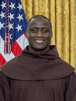 President Donald J. Trump greets the Global Teacher Prize recipient Peter Tabichi of Kenya Monday, Sept. 16, 2019, in the Oval Office of the White House. (Official White House Photo by Joyce N. Boghosian)